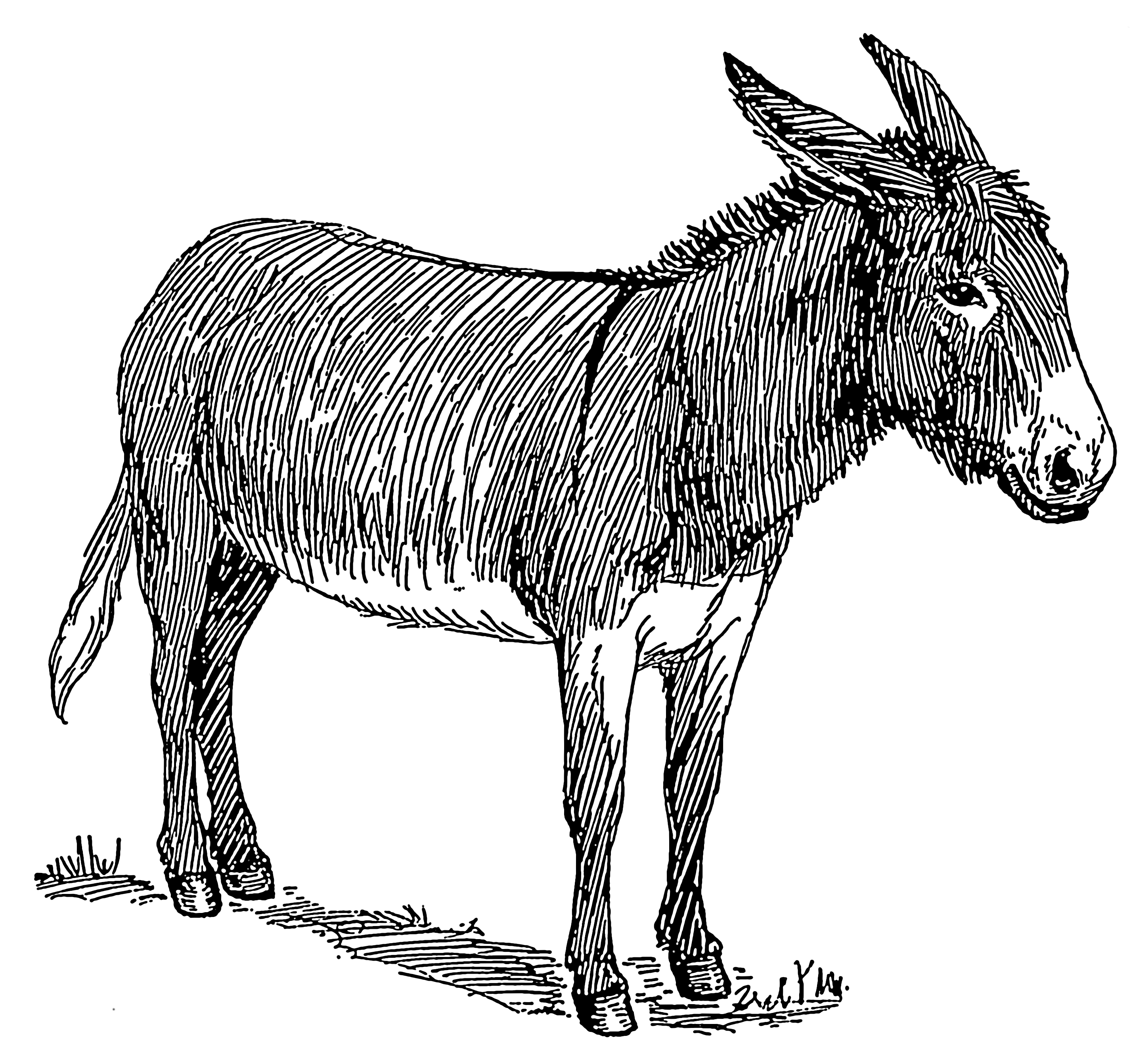 Line art drawing of a donkey.